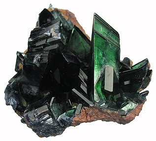 Vivianite Locality: Tomokoni mine, Machacamarca District (Colavi District), Cornelio Saavedra Province, Potosí Department, Bolivia (Locality at ) Size: 6.3 x 5.3 x 4.1 cm. This mine has produced what are clearly some of the finest quality Vivianite specimens ever seen. This small cabinet size piece features absolutely beautiful, lustrous, gem quality, emerald green, sword shaped "textbook" crystals of Vivianite sitting atop metamorphosed Sandstone. Please note that there are unusual "curved" crystals on this specimen, which is not uncommon for Vivianite, but is uncommon for most mineral species. There is a contact on one of the curved crystals, which most likely occurred when the piece was extracted during the mining process. These are still some of the best quality Vivianite crystals you will see from any locality, hands down. This piece is in very good shape. I have never seen specimens of this quality, color, luster and gemminess before, not only from Bolivia, but virtually any world locality. A super overall Vivianite specimen from this unusual new find in Bolivia. Ex. Brian Kosnar.